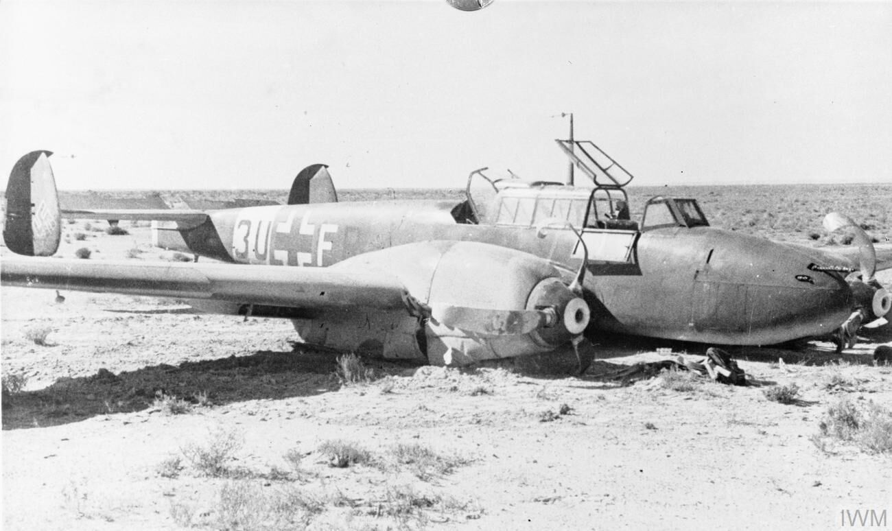 A German Messerschmitt Me 110D of 8./ZG 26 (3U+FR), shot down by RAF fighters during the fighting over Tobruk, April/May 1941.